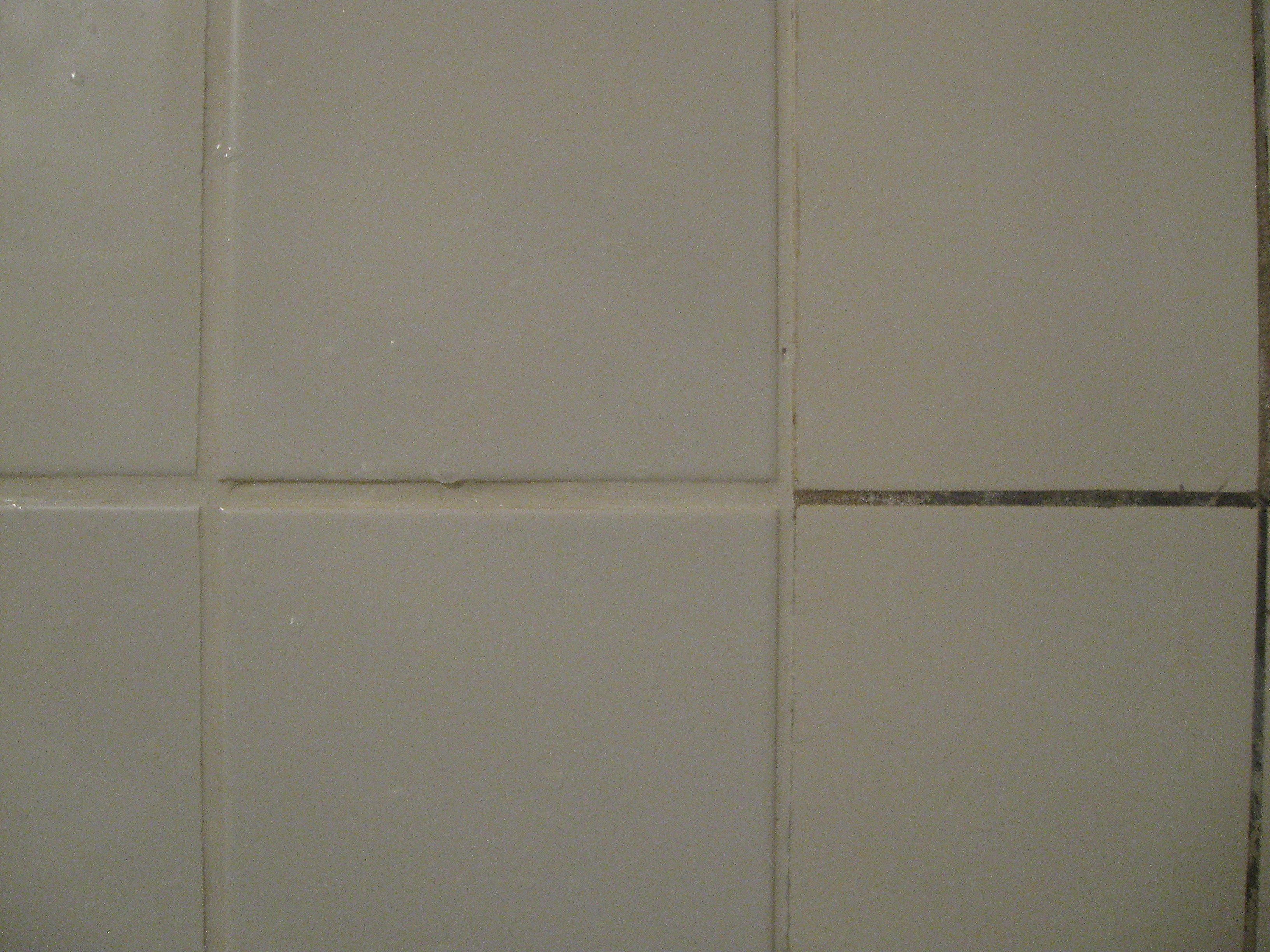 Grey and white tilling grout.